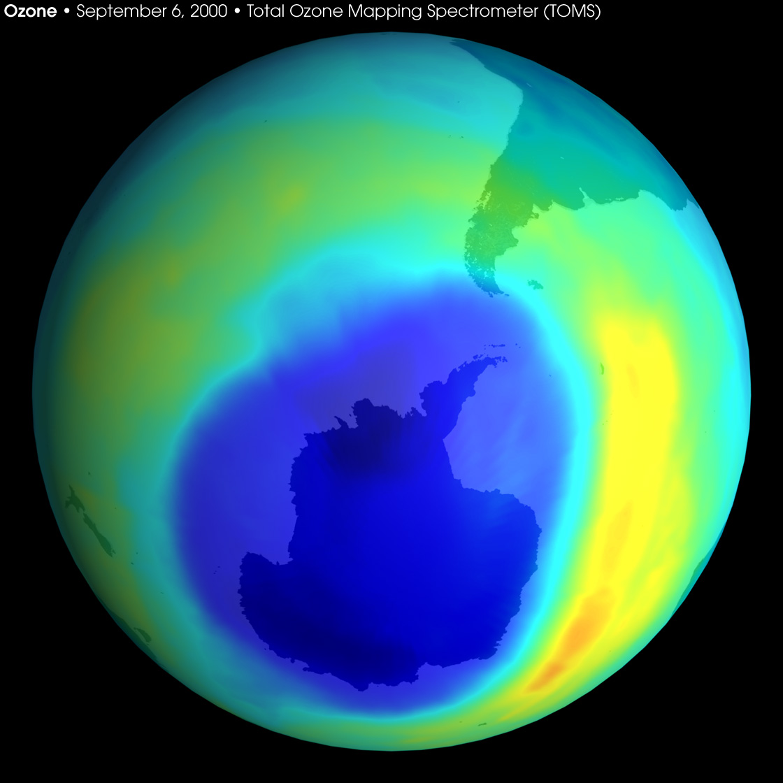 Image of the largest area of Antarctic ozone thinning ever recorded in September en:2000. Data taken by the Total Ozone Mapping Spectrometer (TOMS) instrument aboard NASA's Earth Probe satellite. Image:Lo Thung Ozon Lon Nhat Sept 2000.jpg